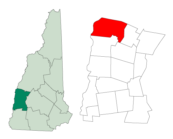 Map of a municipality in Sullivan County, New Hampshire